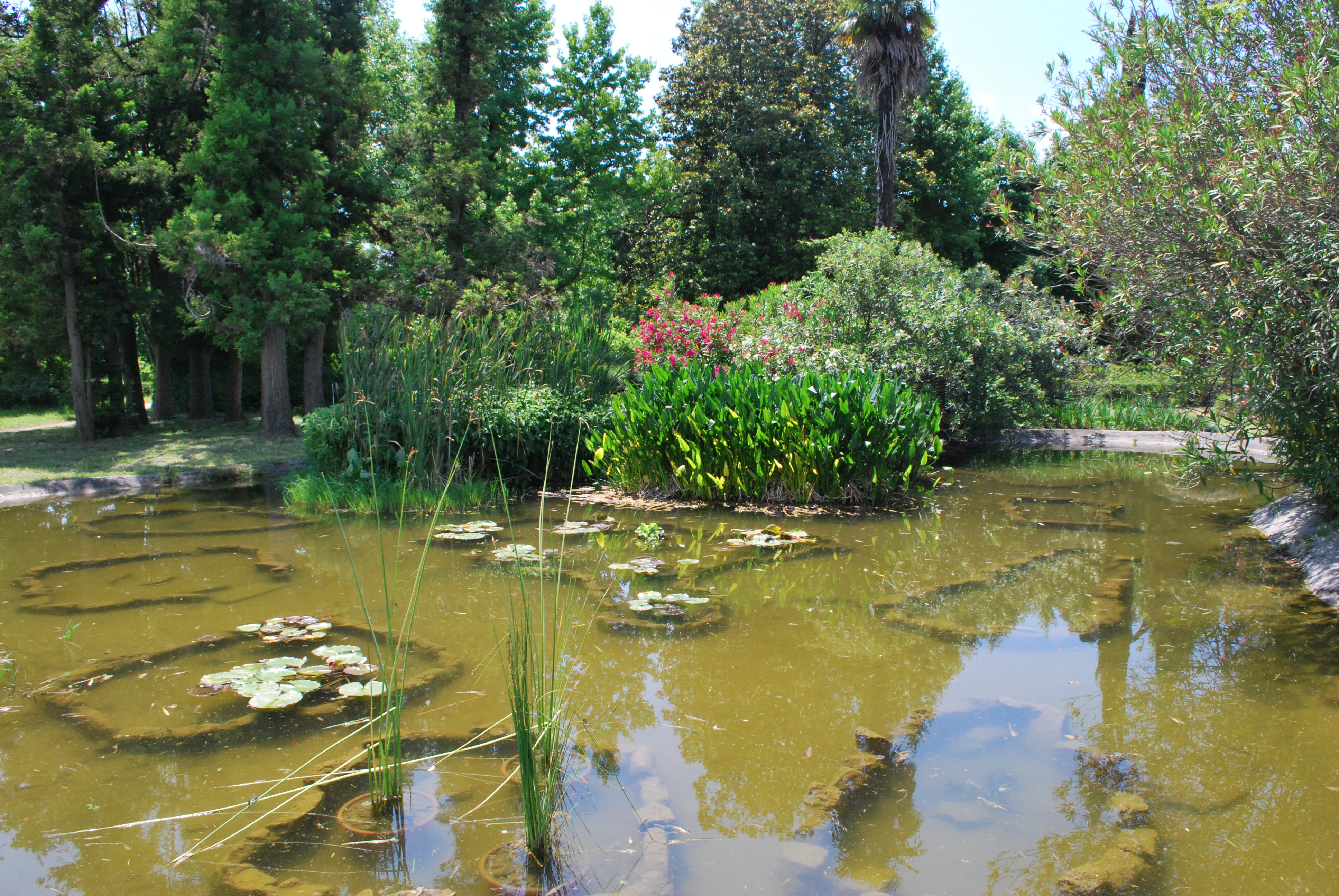 Yuzhniye Kultury (Southern Plants) Park — the water gardens. Located in Adler, Sochi, Krasnodar Krai, southern Russia.